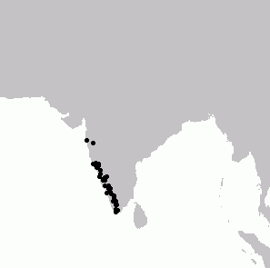 Distribution map of Malabar Grey Hornbill Ocyceros griseus based on BirdSpot data